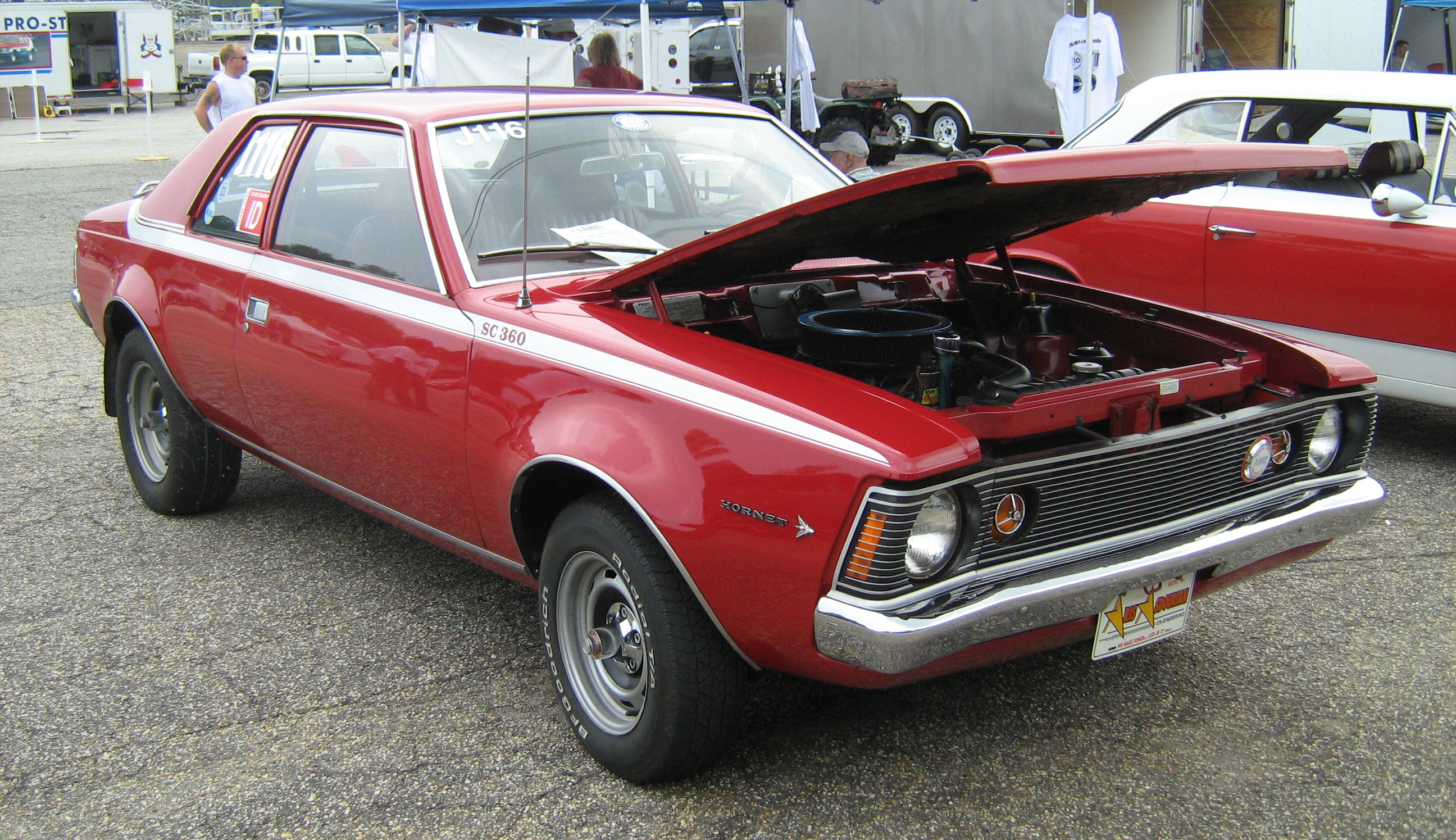 1971 AMC Hornet SC 360 a compact "muscle car" that was made by American Motors Corporation (AMC). This two-door sedan was an economical factory-ready model for on-road performance and drag racing. The standard engine was AMC's 360 cu in (5.9 L) V8. Photograph taken at Potomac Ramblers Club's 2011 all AMC Drag Race Day held at the Capitol Raceway, an NHRA sanctioned, 1/4 mile, asphalt and concrete, drag strip located in Crofton, Maryland.